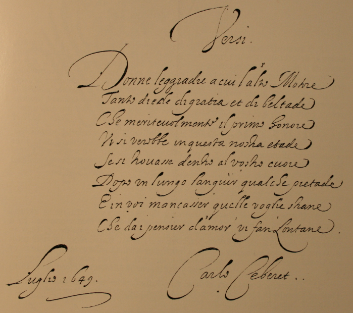 Charles Ceberet, Diverses manières d'écrire 1649.